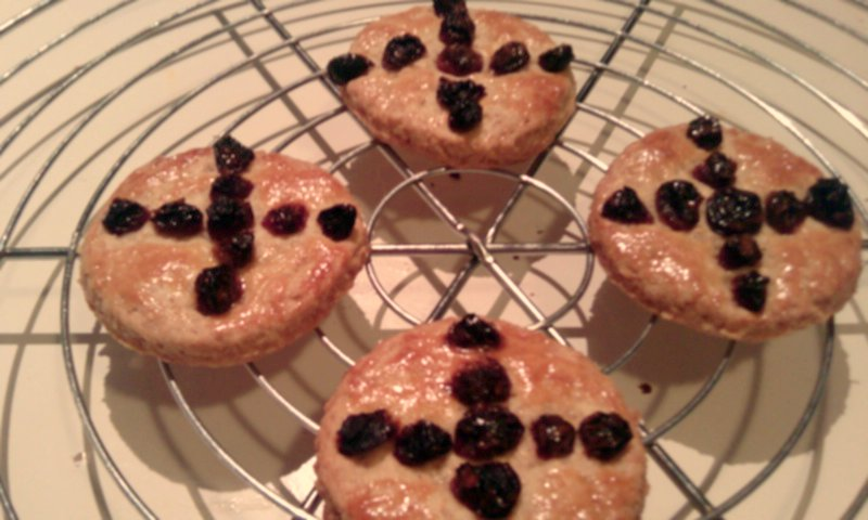 Not so fancy, but with a story: Representing the 4 quarters of the moon, soul cakes have been a part of Samhain, and since the middle ages of all soul's eve, for decades. Probably not very known anymore, but these do have had a major influence on history, especially in the United States (though also on the Dutch). "Explanations on the origins of soul cakes vary. Some say that cakes were baked for the bonfires and that they were a lottery: pick the burnt cake, and you get to be the human sacrifice that ensures good crops next year. Or, soul cakes may have been tossed around an area to appease evil spirits condemned to wander in animal form." By the 8th century they were given to beggars going from door to door, and promised to pray for the giver's soul in return for the cookie. They came in al shapes and sizes, some more cake-y, some more like cookies, others hard as rock. Thick, thin, with or without cross, gingery or saffrony: it's really hard to give _the_ recipe. I like these, because of the moon reference, and the sun because of their yellow look caused by the saffron and egg yolks (hard to tell on the pic though). I'll put two on my altar and bury them later. The rest I will eat with my housemate and boyfriend =P The next batch had twice the thickness, btw.